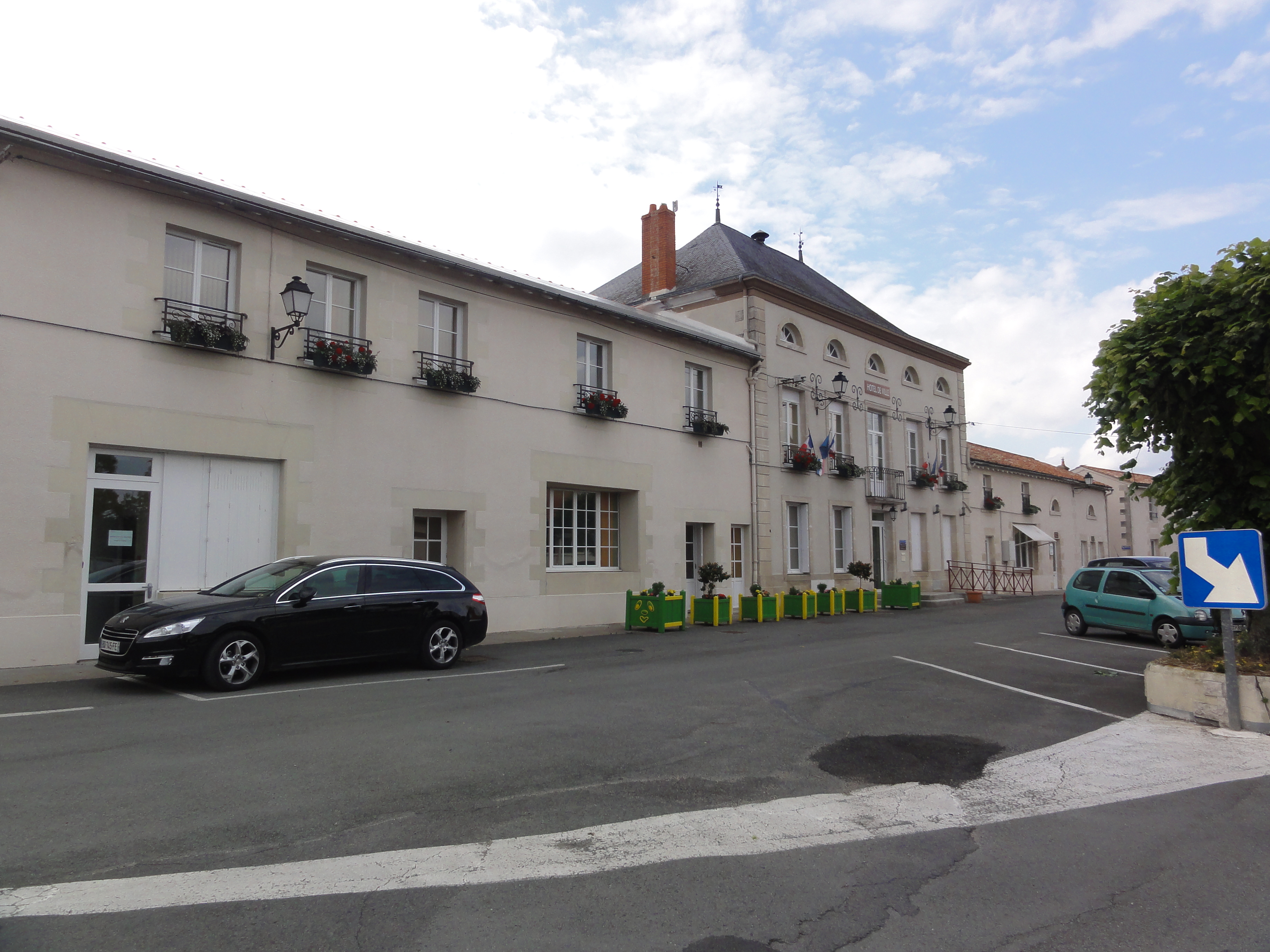 Saint-Georges-lès-Baillargeaux (vienne) école-mairie